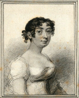 Portrait of Italian opera singer Teresa Bertinotti-Radicati (1776-1854)